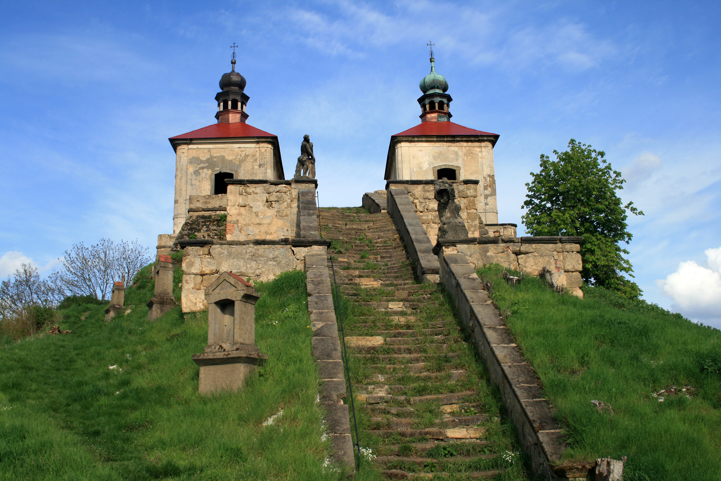 The church in Ostré (Ústí nad Labem Region, Czech Republic).